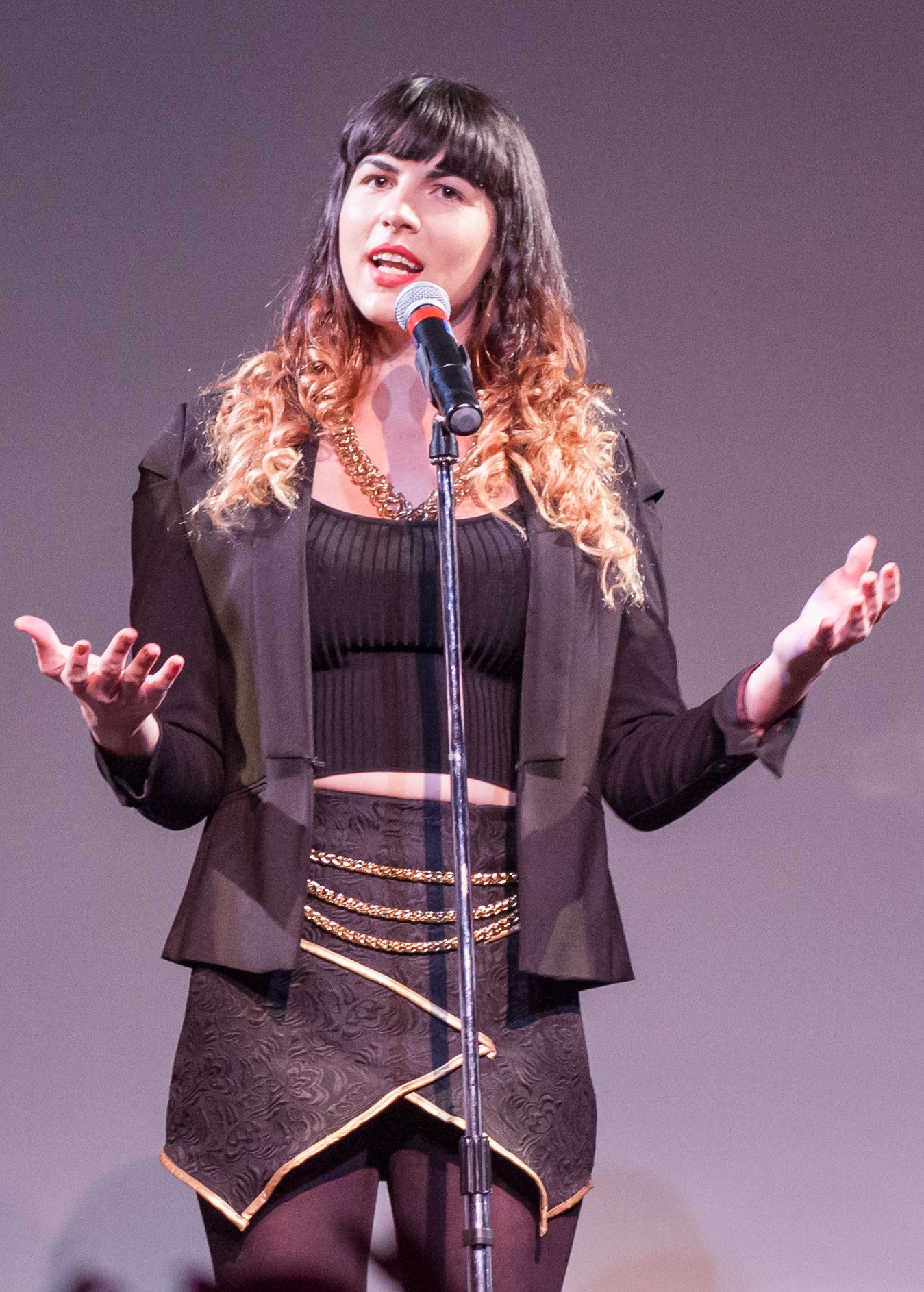 Mia "Tu Mutch" Satya speaks at the Transgender Day of Visibility celebration in San Francisco, March 2016.